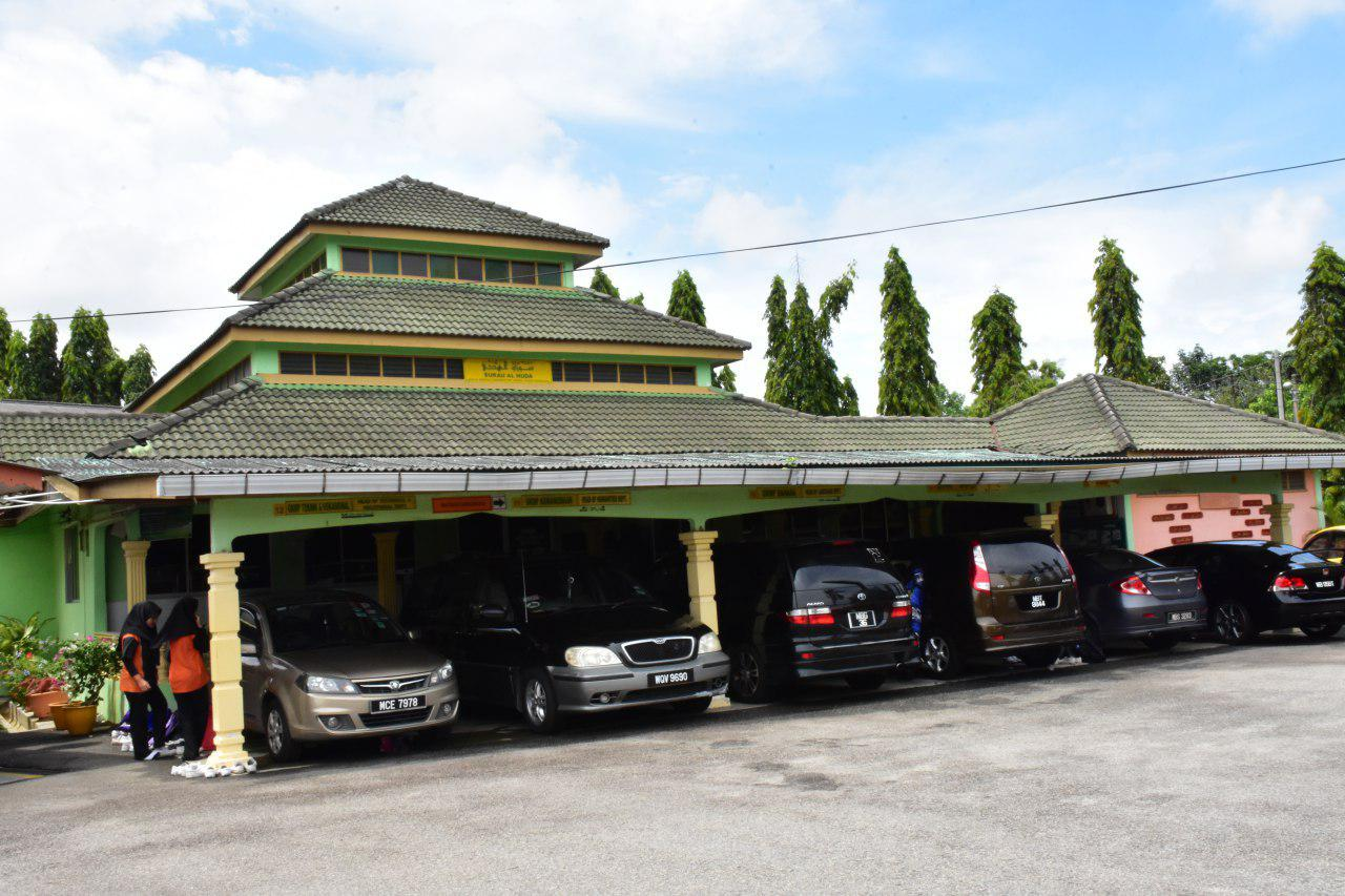 Surau Sekolah